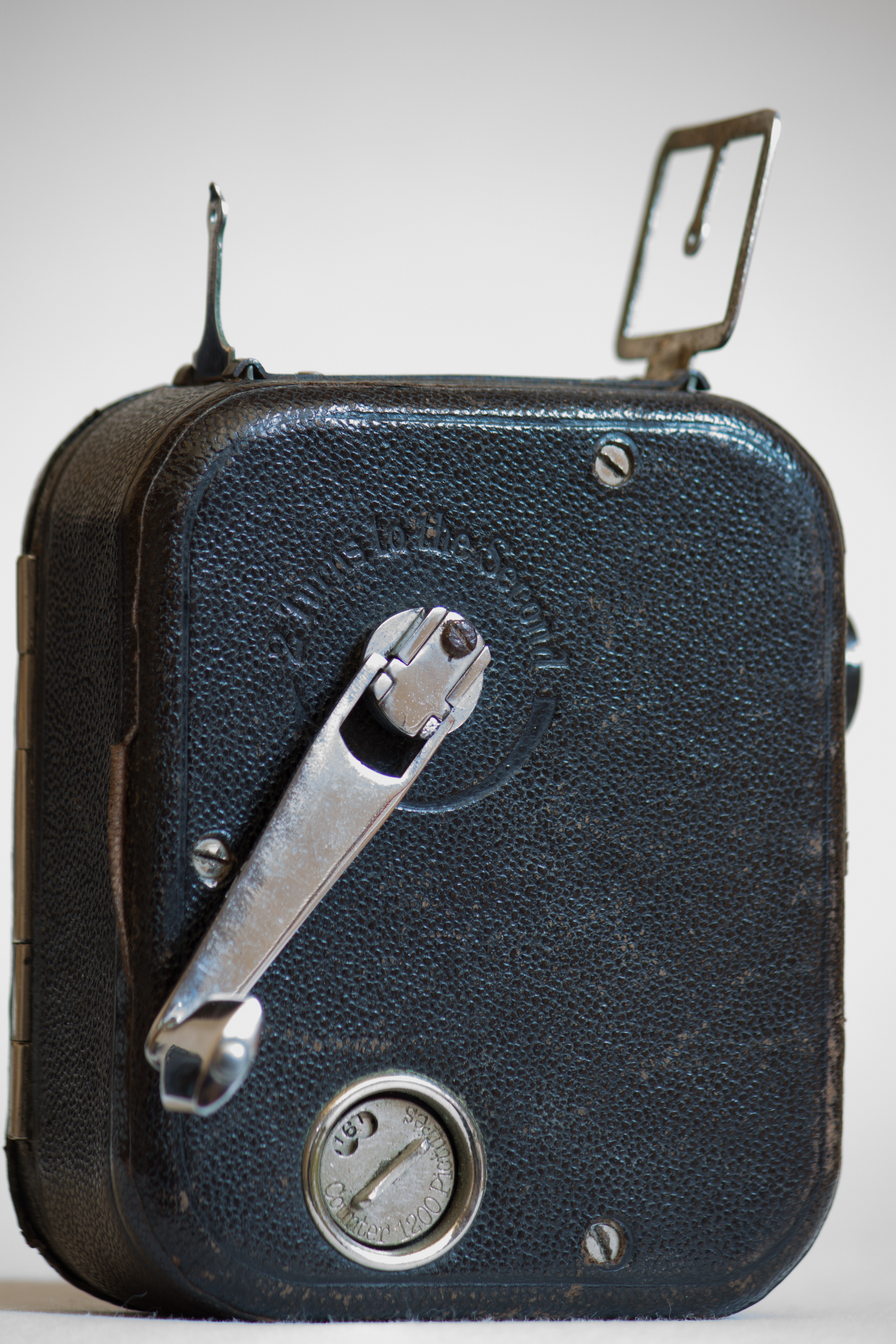 Pathé-Baby hand movie camera (right side), 9.5 mm film, 1923